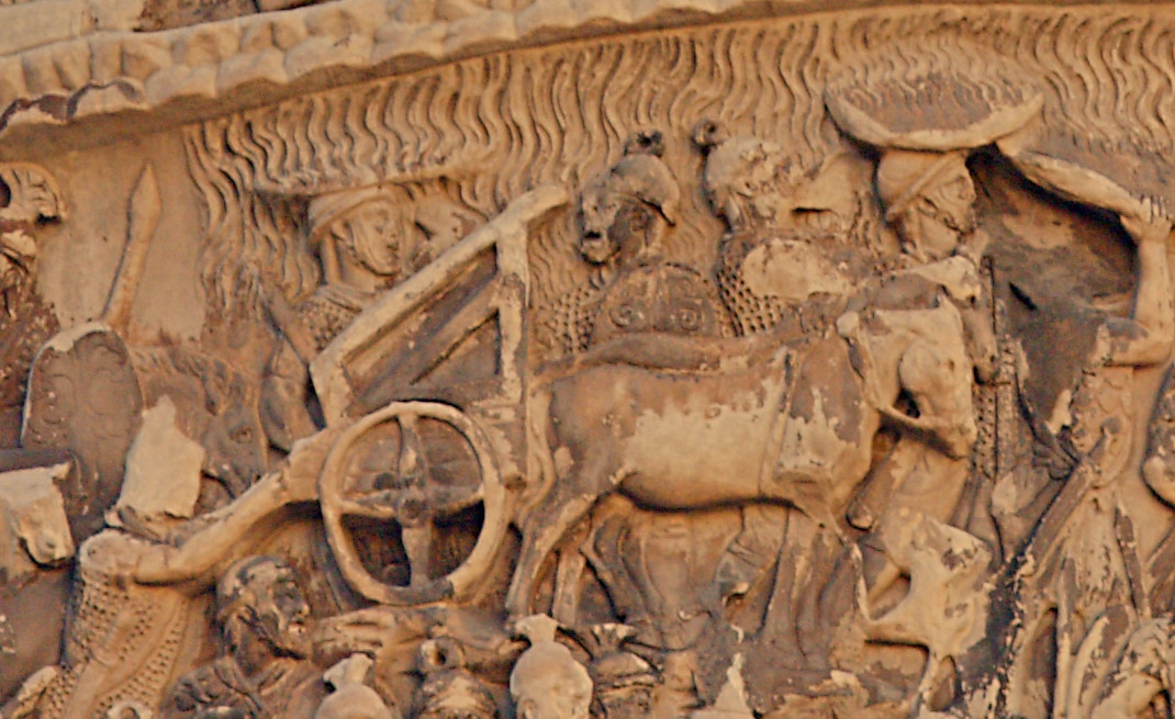 Detail from Column of Marcus Aurelius (Rome)